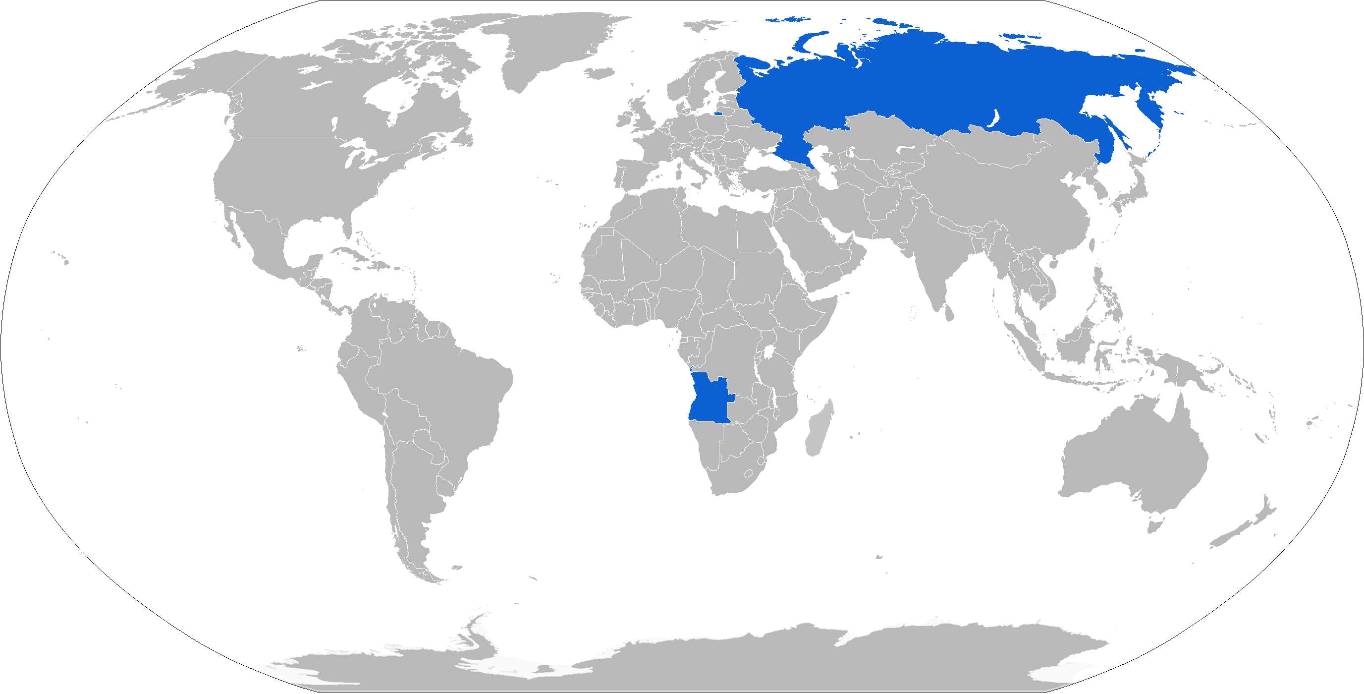 Map of BMD-3 operators in blue